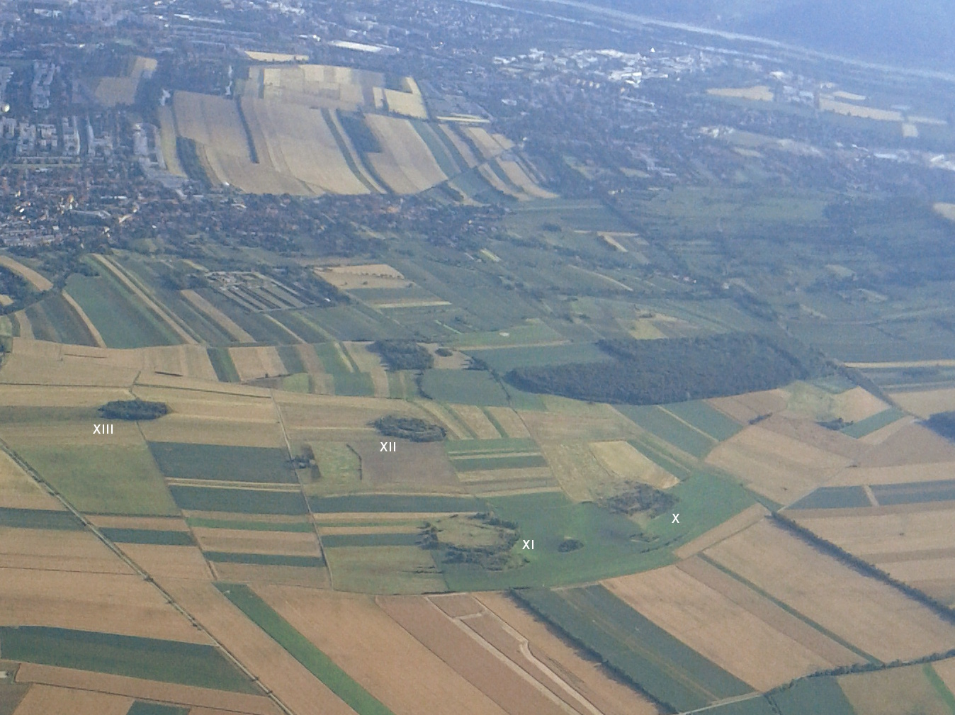 Alte Schanzen, Vienna-Floridsdorf